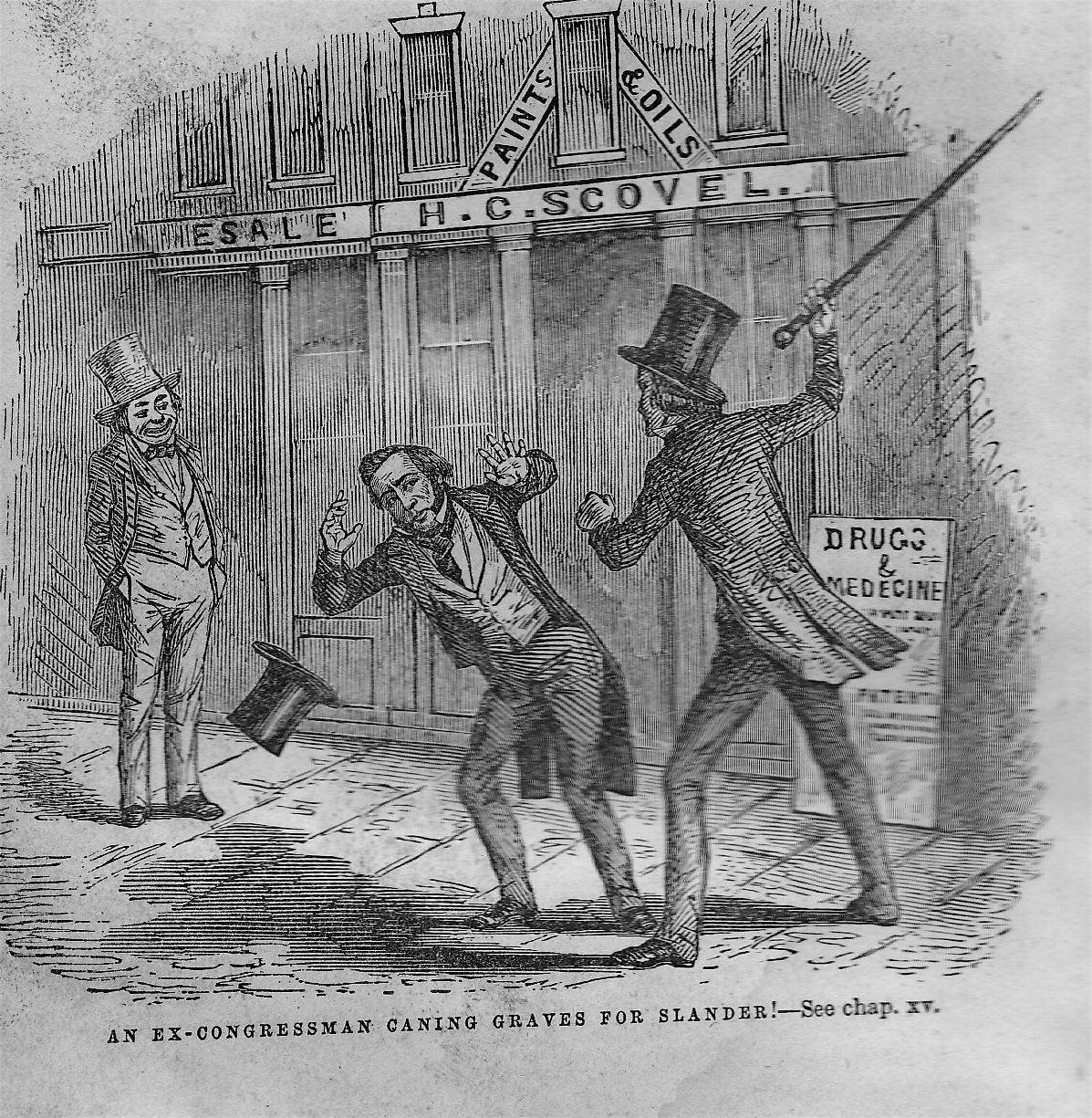 This image is taken from the book "The Great Iron Wheel Examined" (Nashville: 1856) which was written by Methdodist William Brownlow in response to James Robinson Graves' book "The Great Iron Wheel", which was a Baptist attack on the Methodist church. It depicts an unnamed ex-congressman who is said to have caned Graves in front of Scovel's drug store in Nashville for slandering a woman in a published editorial.